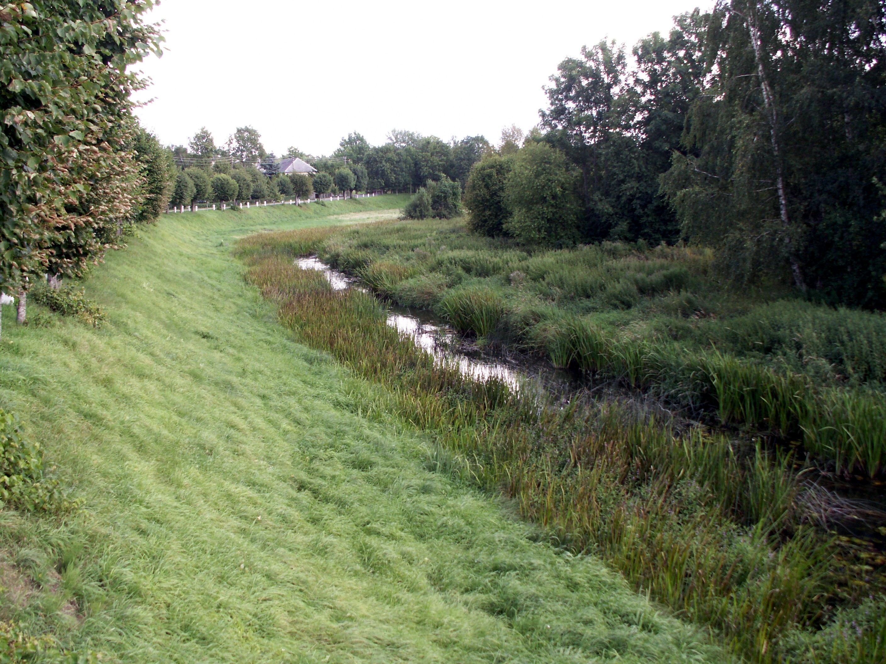 Sruoja in Seda, Mažeikiai district, Lithuania